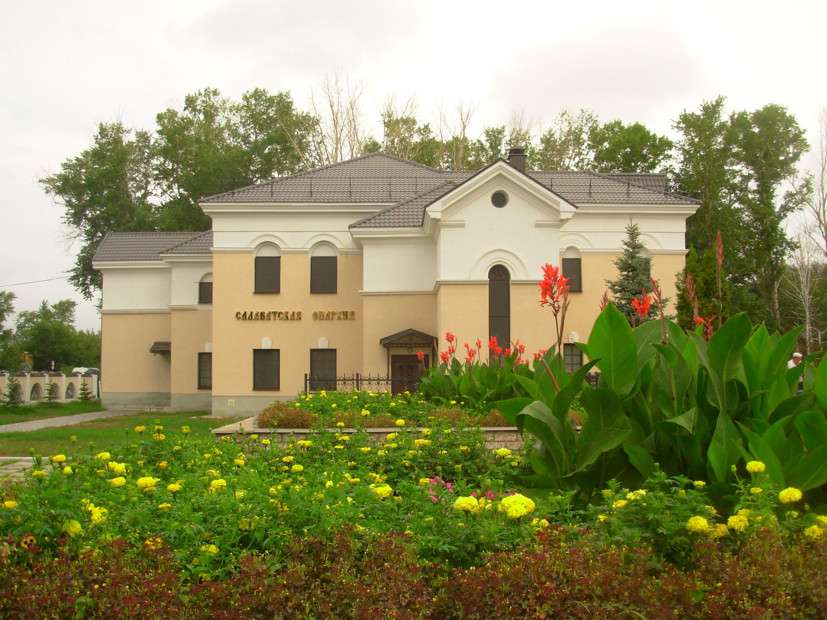 Salavat eparhia